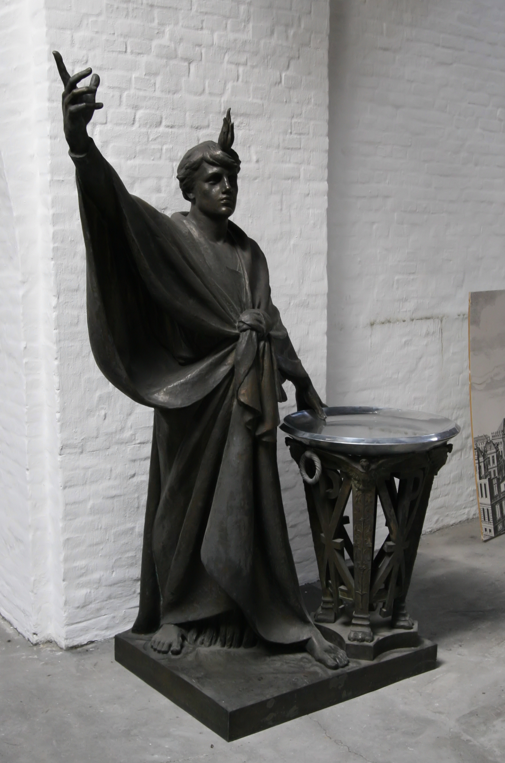 Marmorkirken, Copenhagen, Denmark . The old baptismal font, now placed in the church museum.